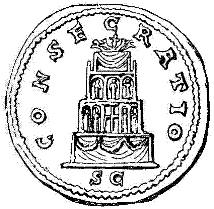 738 woodcuts illustrating the work A Dictionary of Roman Coins, Republican and Imperial (1889). To identify a coin please look at the filename to identify a page number, and check the Dictionary on numiswiki